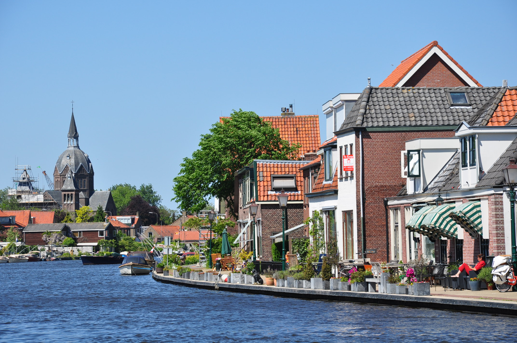 The Old Rhine between Leiderdorp (on the right shore) and Zoeterwoude-Rijndijk (left shore, with church), province of South Holland, Netherlands.